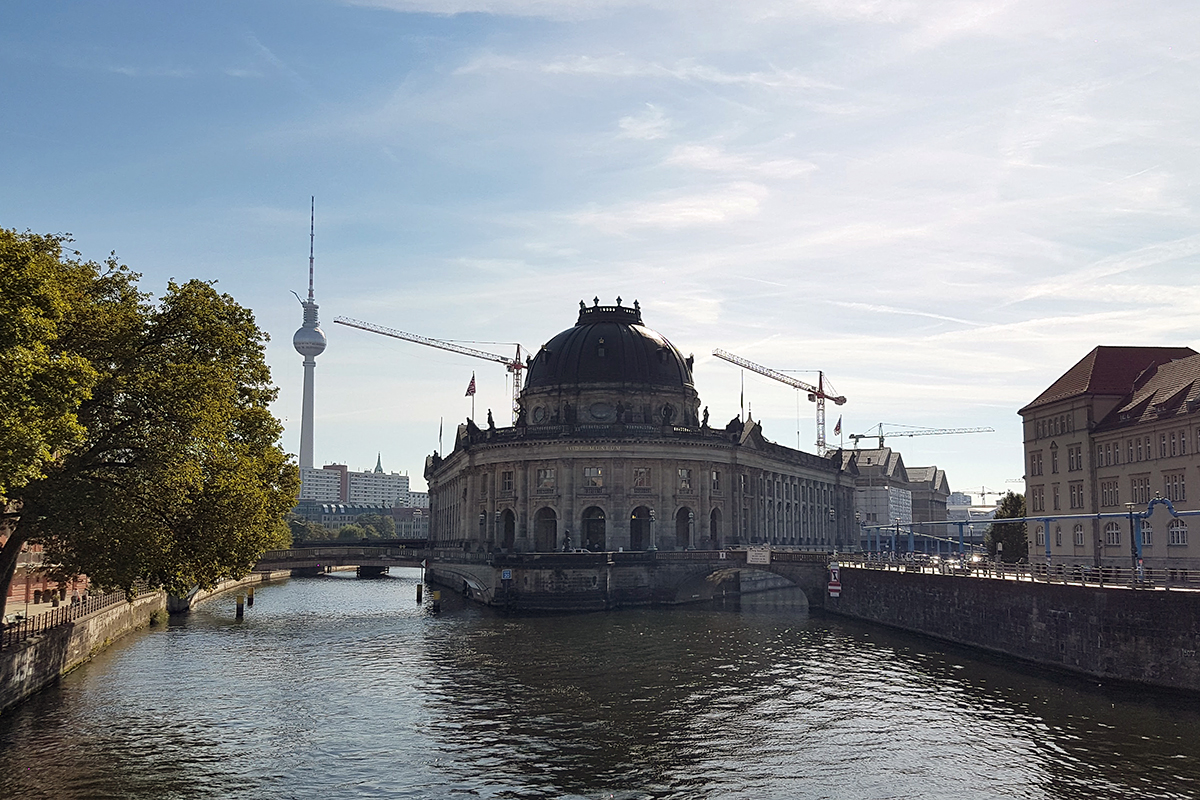 Bode-Museum at River Spree